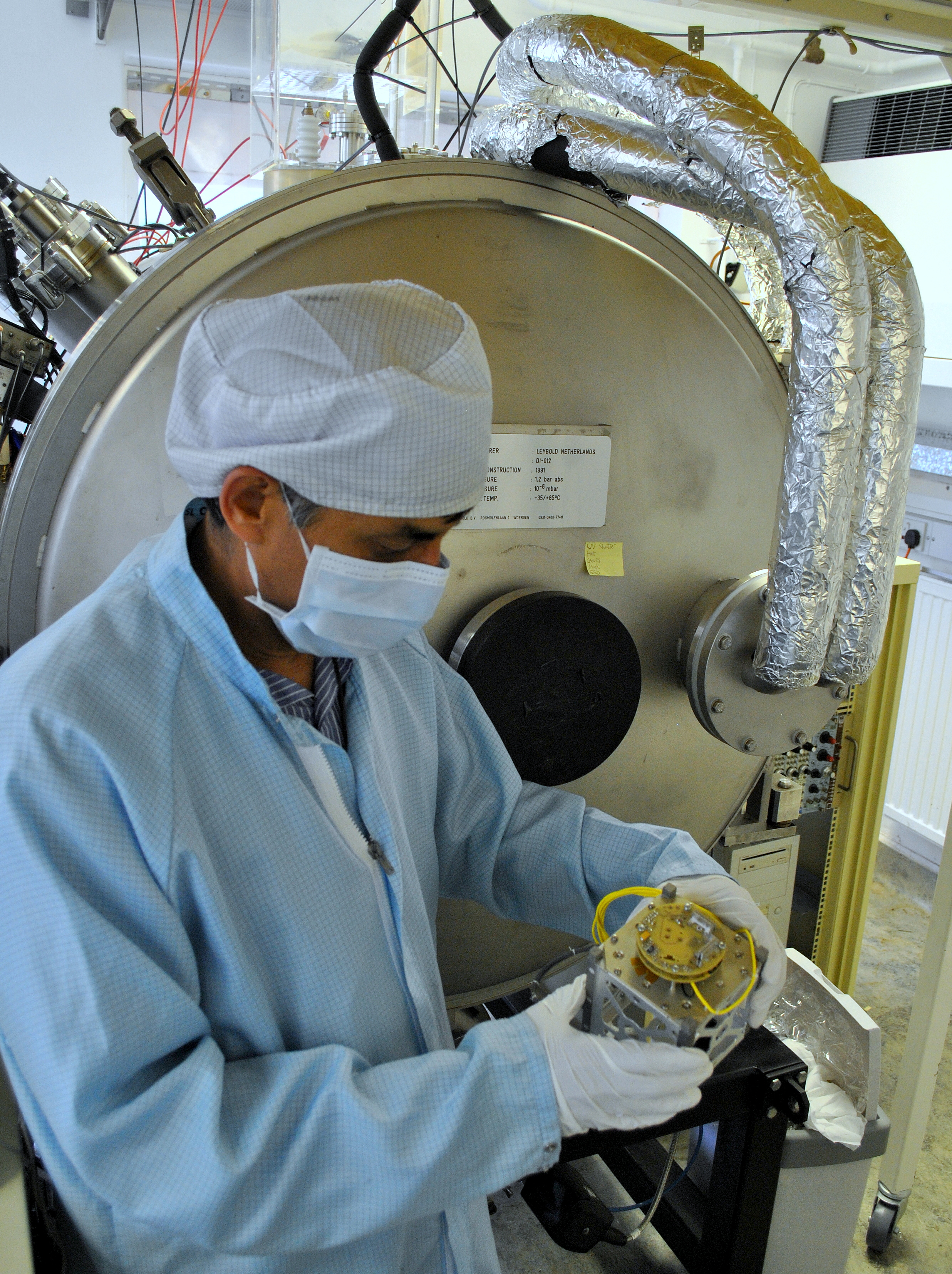 A CubeSat chassis fitted with a prototype electron detector, being held by a scientist in a facility at the UCL Mullard Space Science Laboratory.